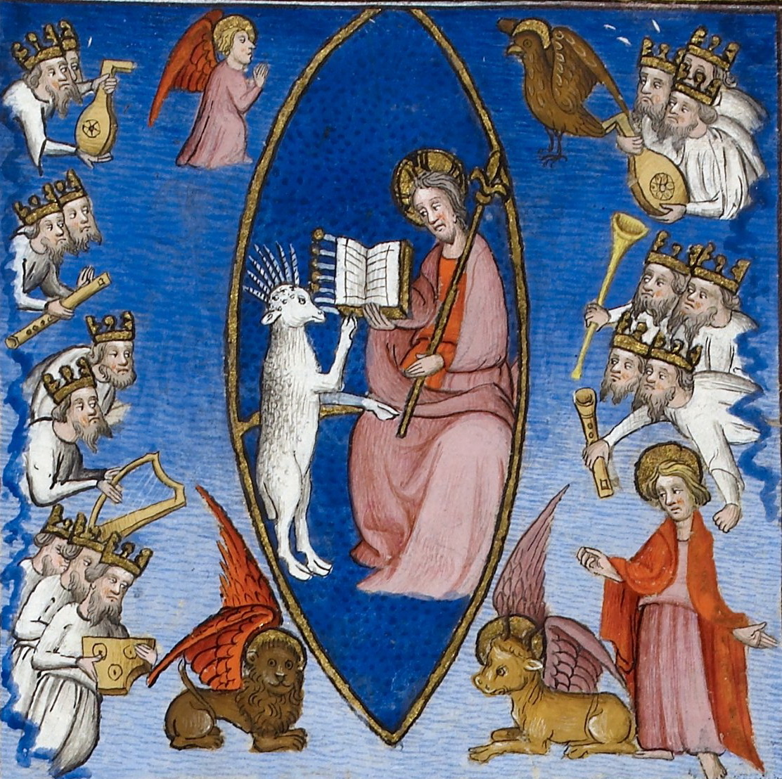 scenes from the book of Apocalypse